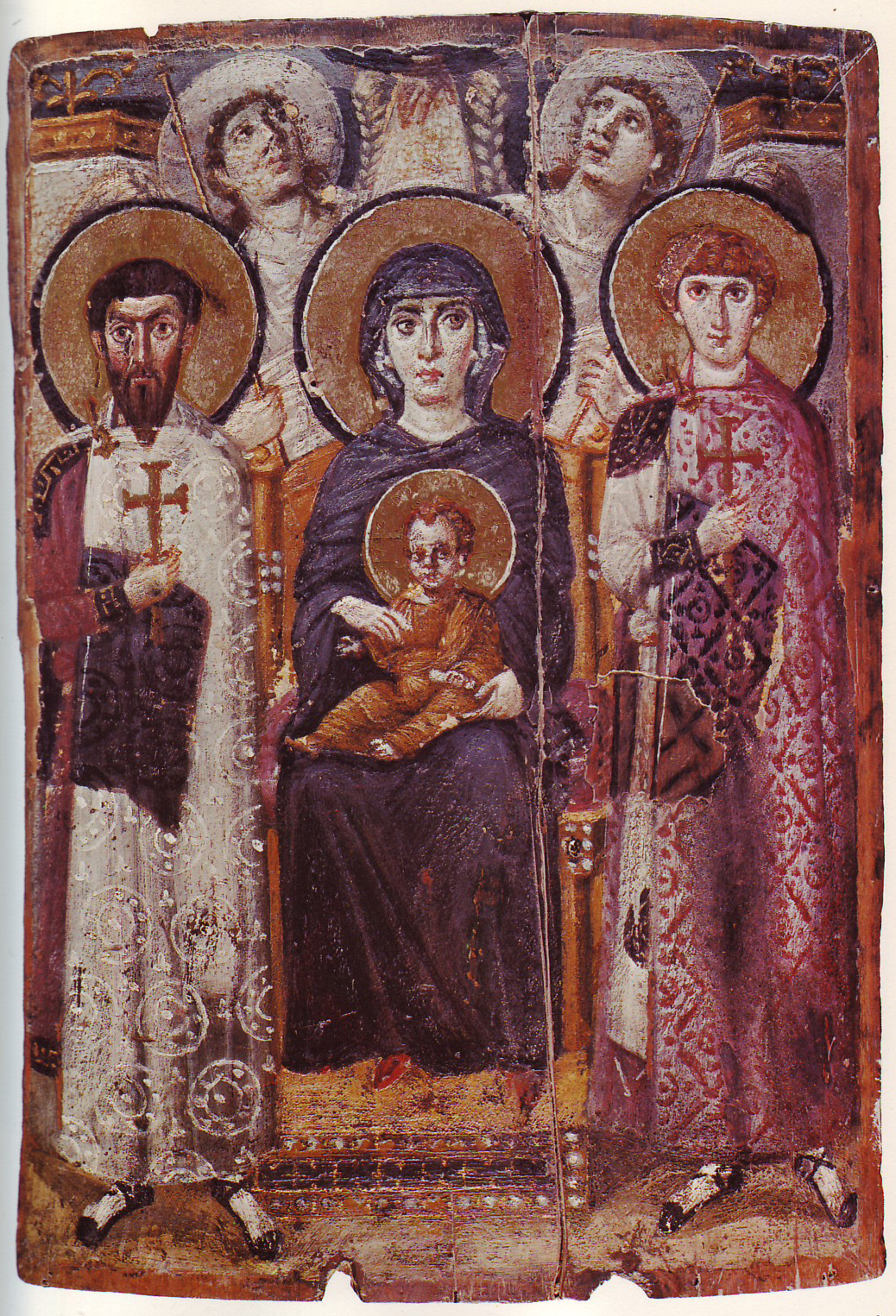 Mary and the child enthroned among the Saints Theodor of Amasea and George and angels. Encaustic icon from the end of the 6th century. 68.5 x 49.7 cm